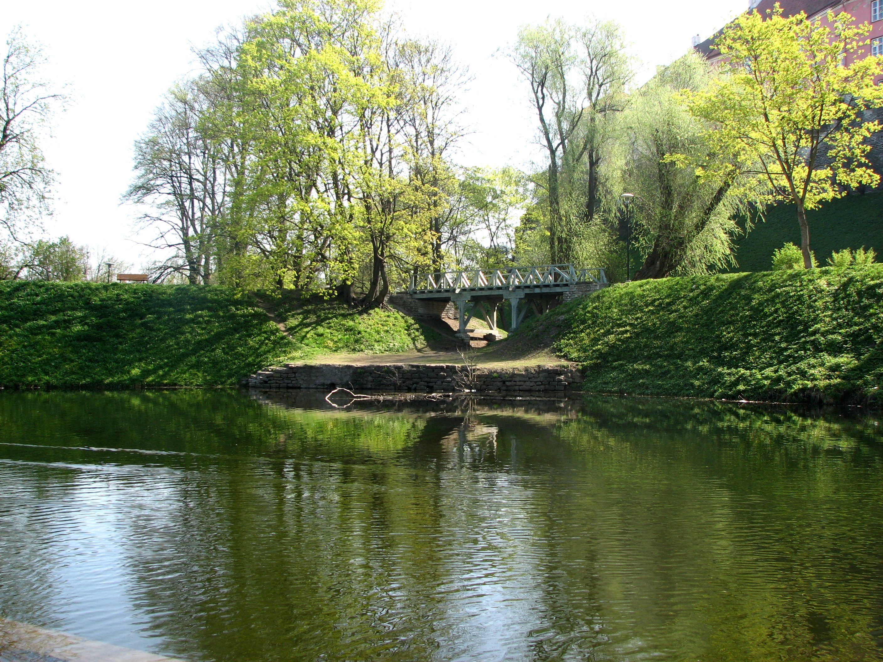 Snell pond in Tallinn